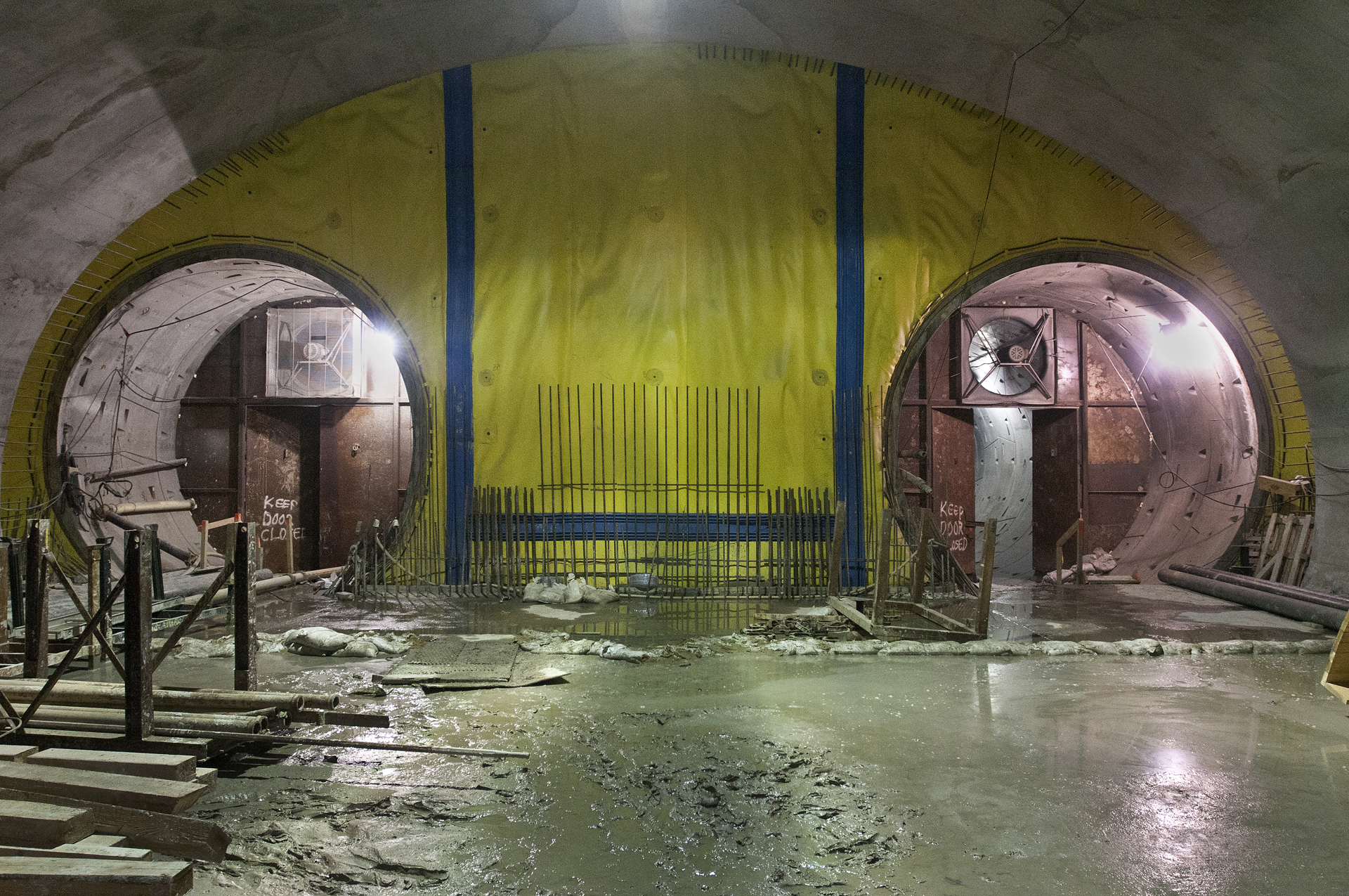 Workers are building the extension of the 7 subway line to 34th Street and Eleventh Avenue. This photo shows the progress as of June 14, 2011. Photo by Metropolitan Transportation Authority / Patrick Cashin.